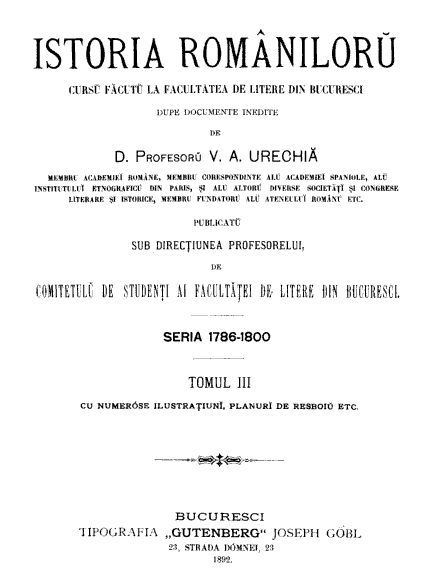 Title page of Istoria Românilor, Volume III, by V. A. Urechia published by Tipografia "Gutenberg" Joseph Gobl, Bucureşti in 1892.